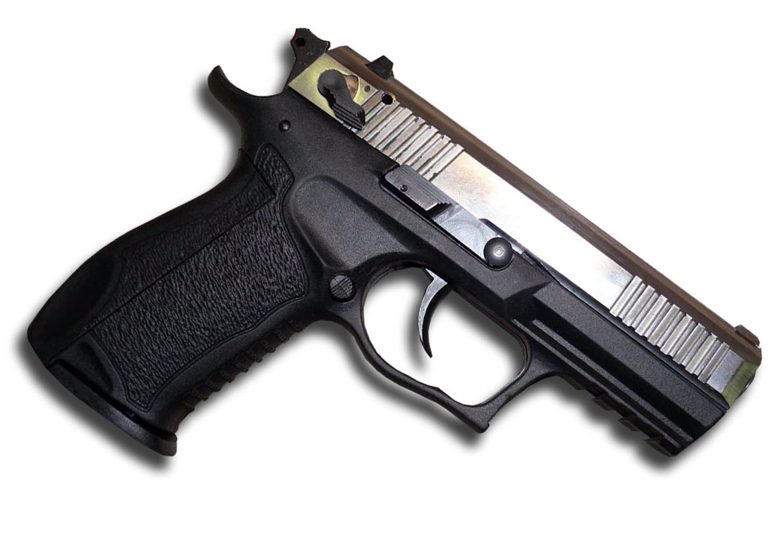 Pistol HORHE for left-handers